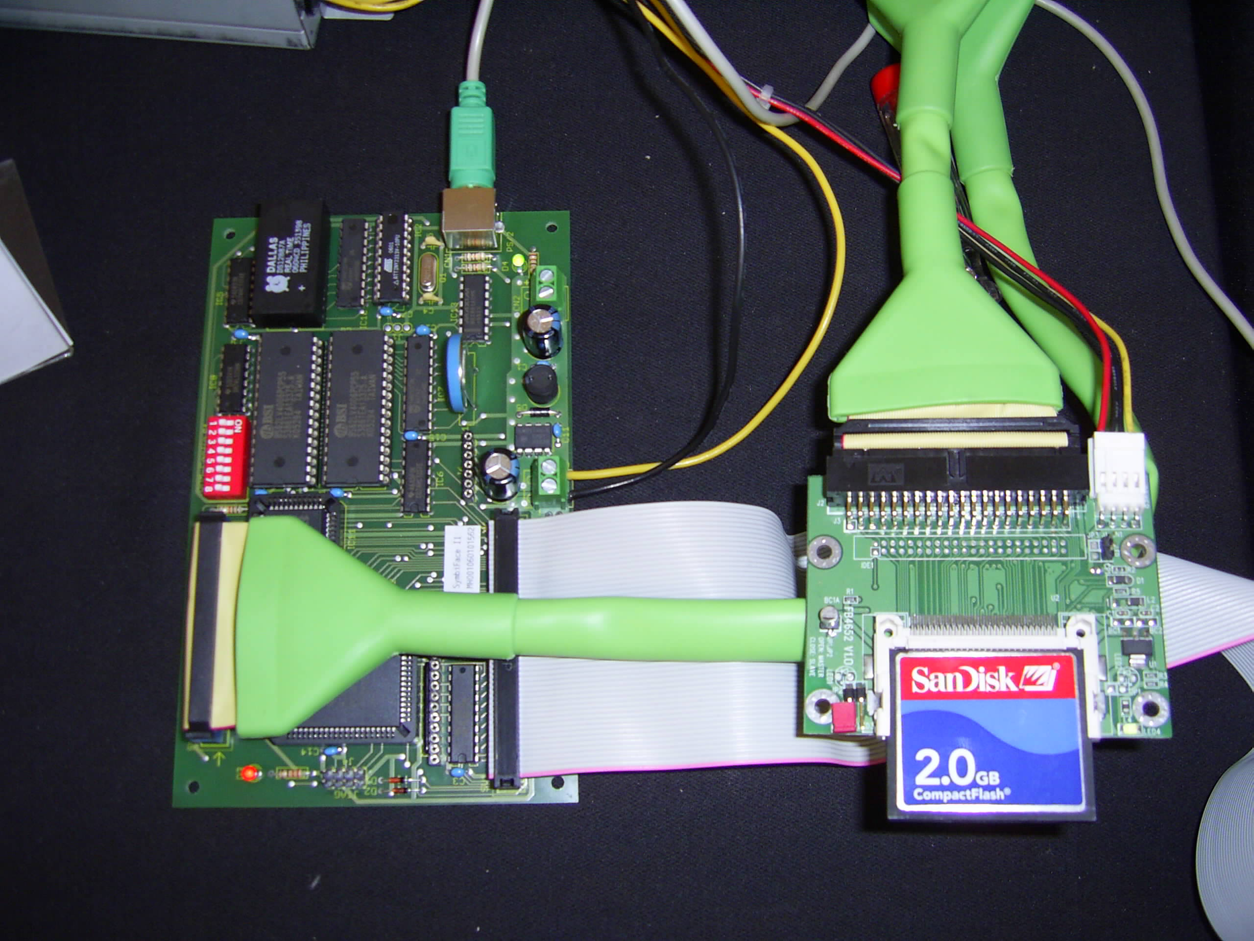 SYMBiFACE II with a CompactaFlash adaptator.